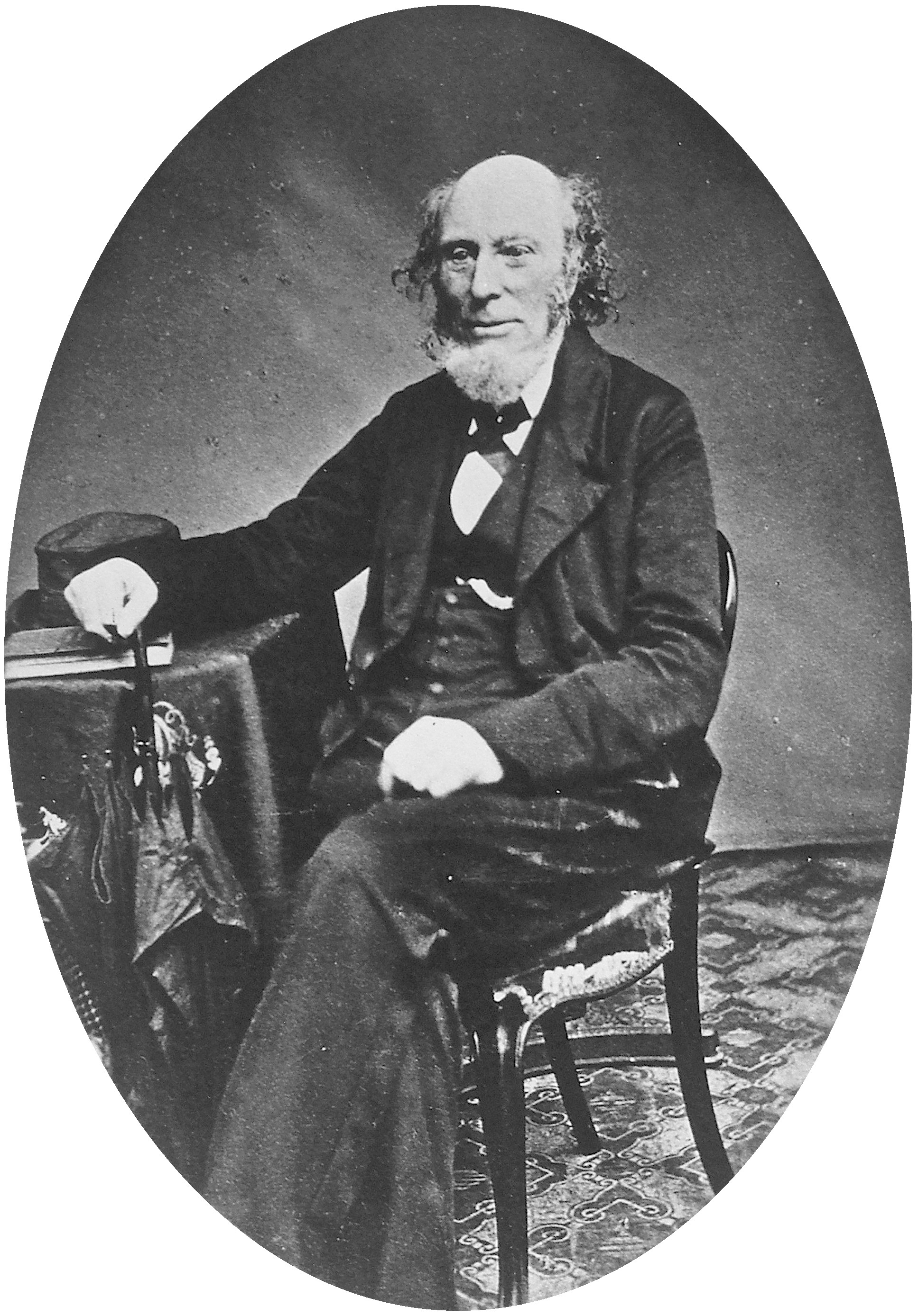 William Henderson (physician and homeopath)